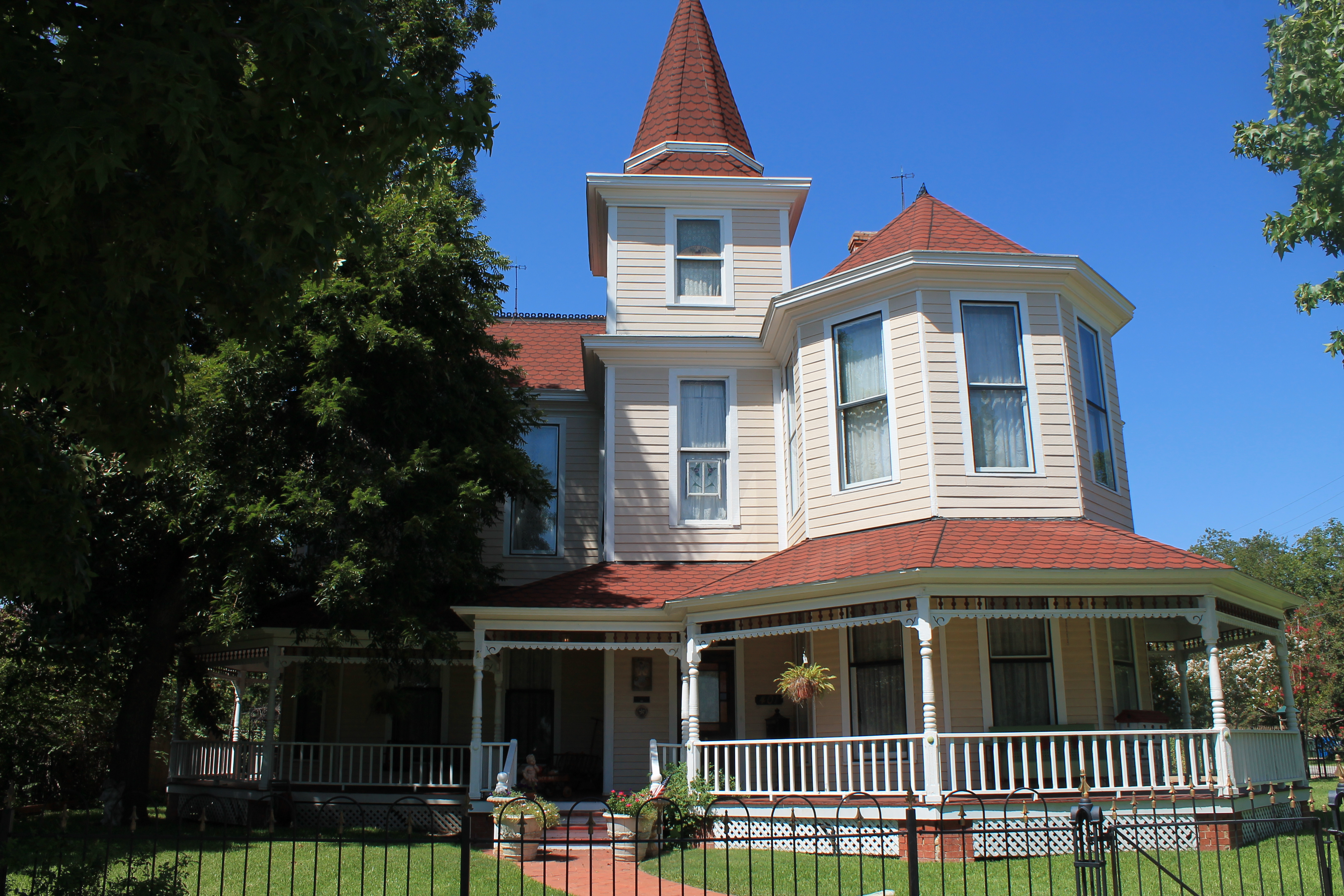 Randlett House